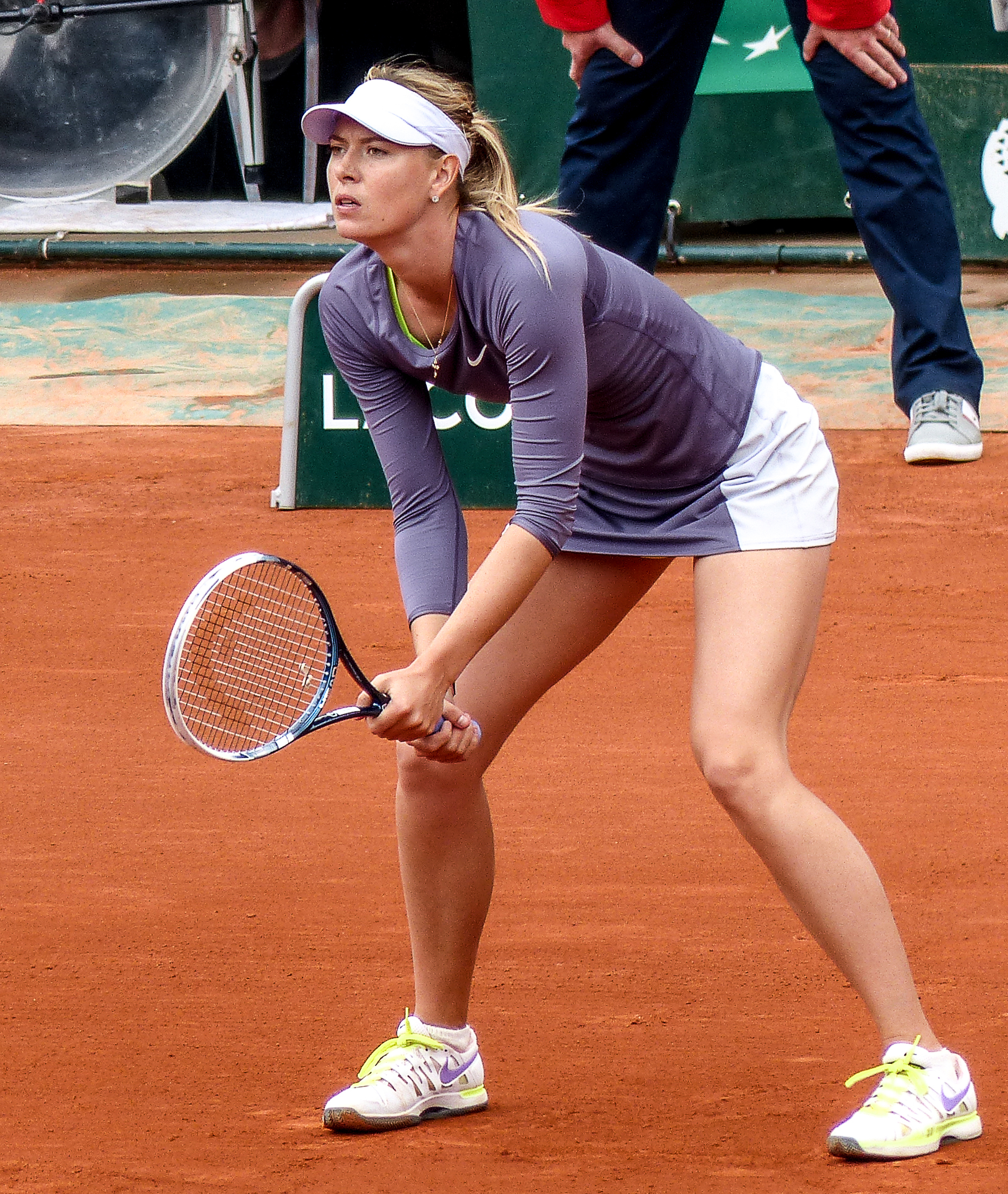 2013 Roland Garros 2nd round: Maria Sharapova (RUS) vs Eugenie Bouchard (CAN)